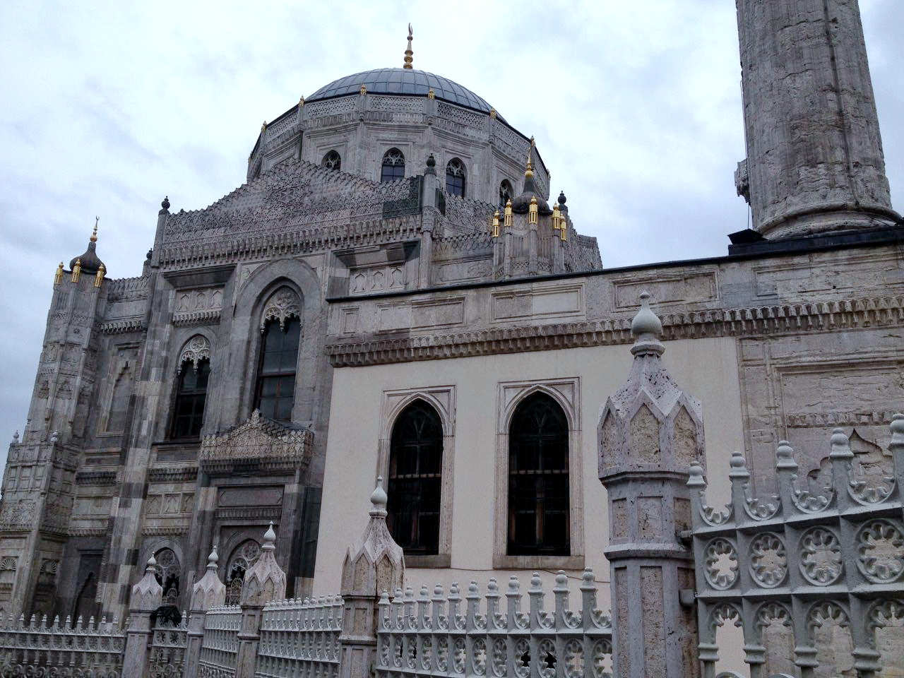 The Pertevniyal Valide Sultan Mosque, also known as the Aksaray Valide Mosque (Turkish: Pertevniyal Valide Sultan Camii, Aksaray Valide Sultan Camii), is an Ottoman imperial mosque in Istanbul, Turkey. It is located at the intersection of Ordu Street and Atatürk Boulevard in the Aksaray neighborhood. It is located next to Pertevniyal High School (Turkish: Pertevniyal Lisesi) which was also built by the order of Sultana Pertevniyal in 1872.